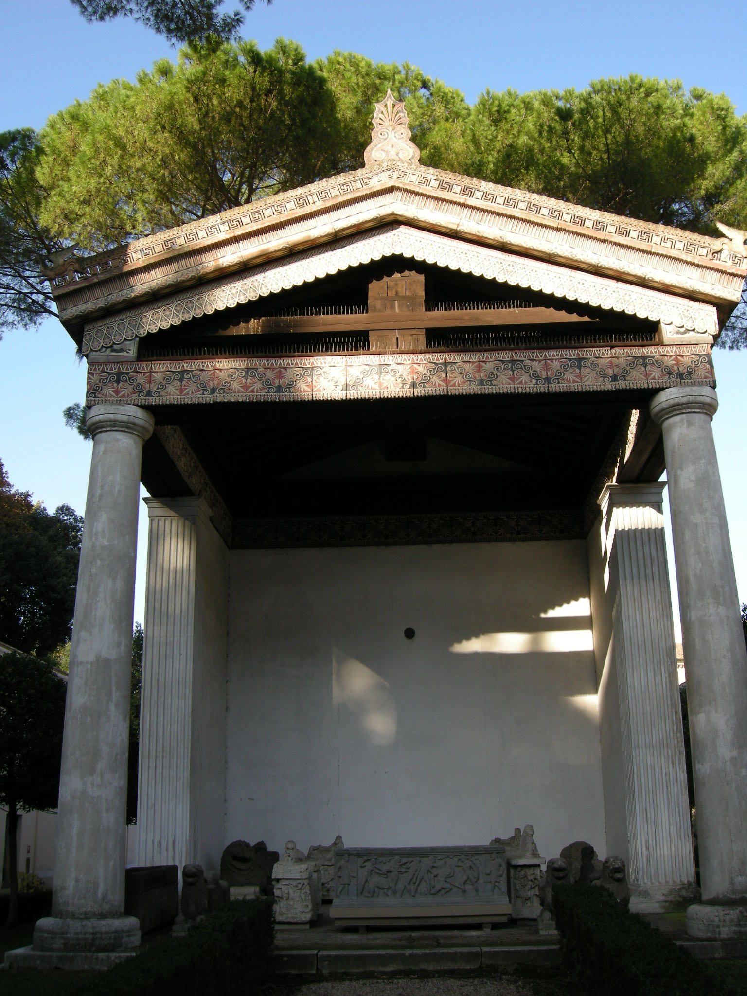 19th century reconstruction of an Etruscan temple, in the courtyard of the Villa Giulia Museum in Rome, Italy.